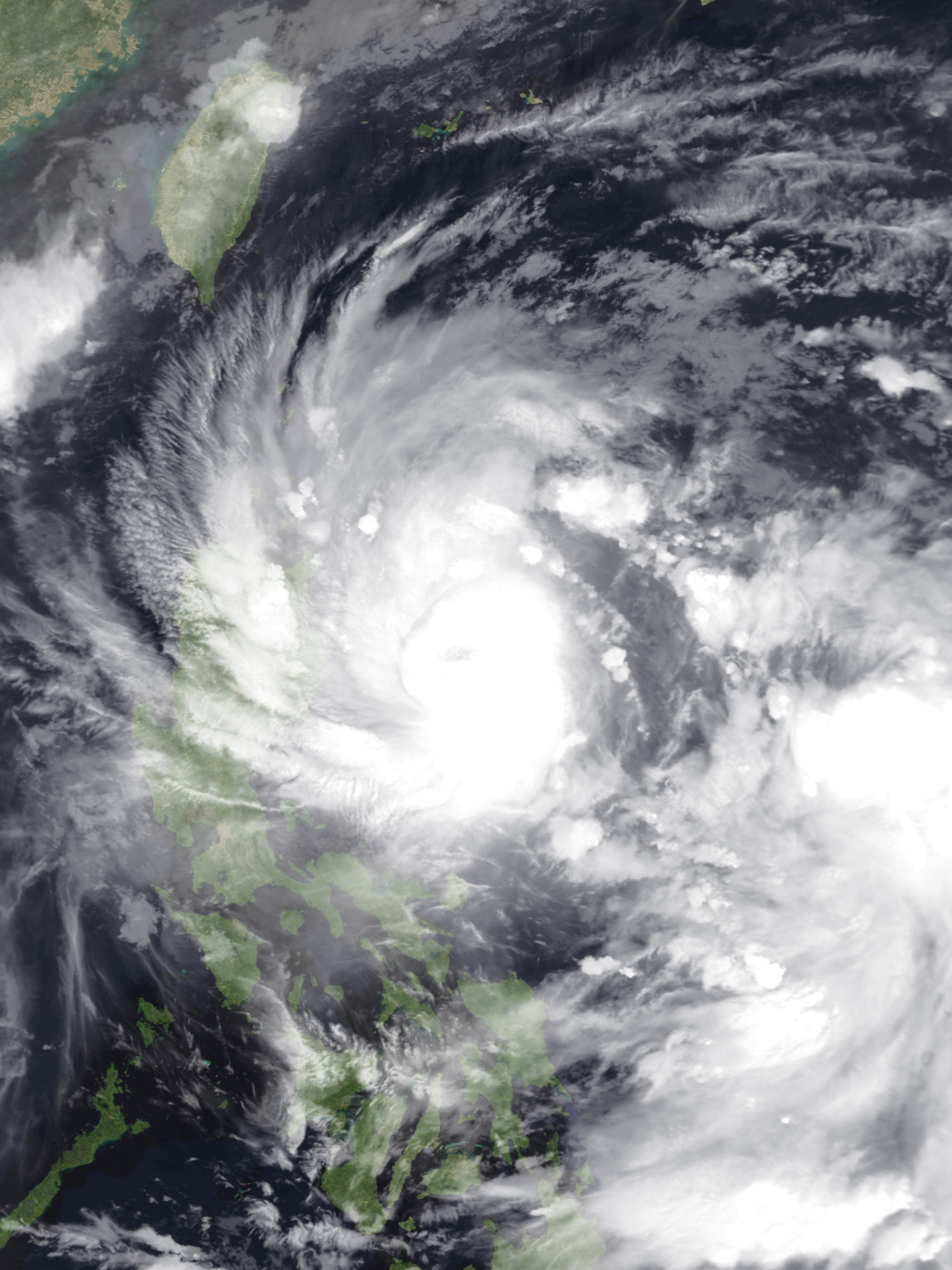 Typhoon Nalgae near peak intensity on September 30